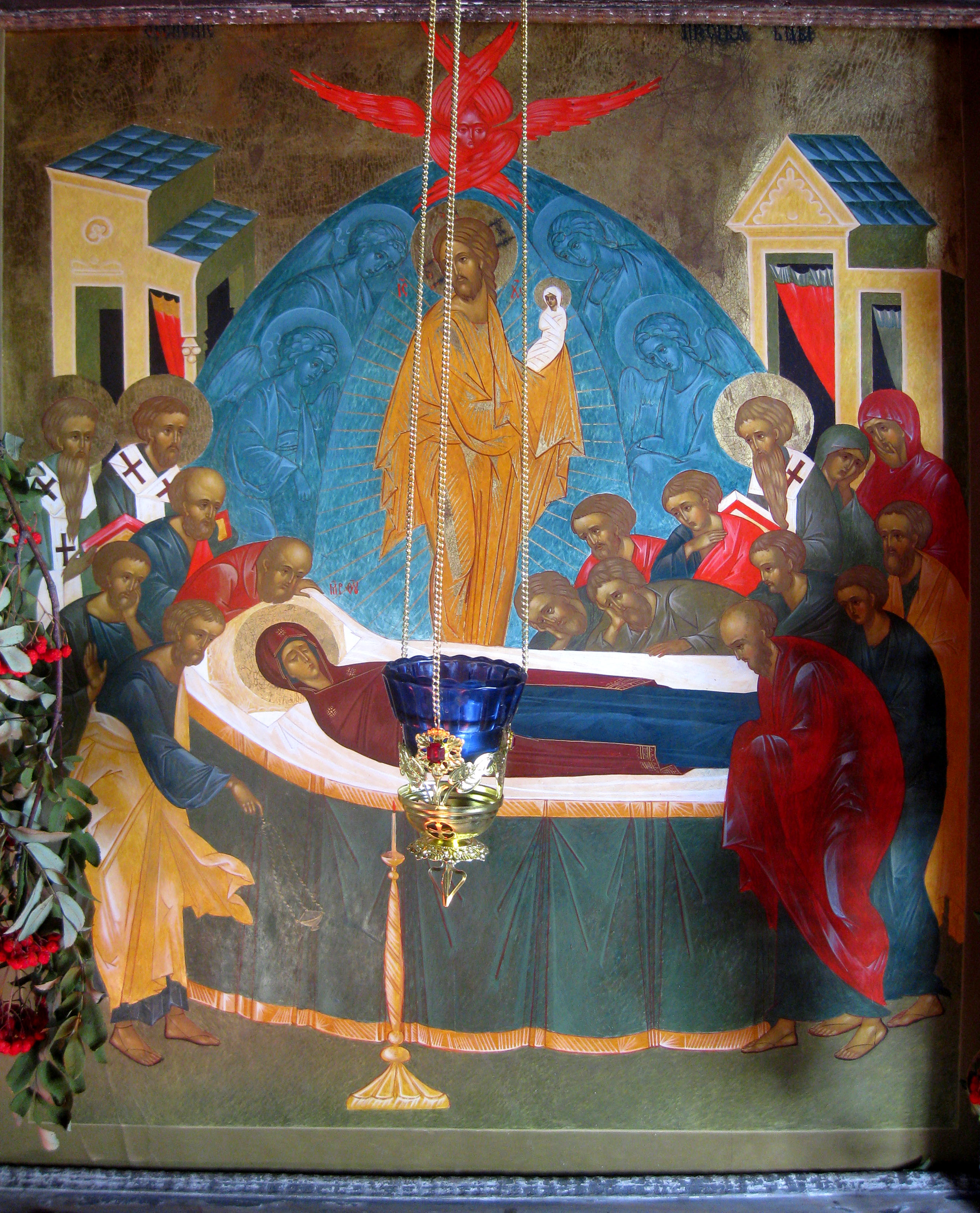 Dormition of Mary (Uspenie Bogoroditsy), icon. Church of the Dormition of the Theotokos (1774) at Kondopoga.